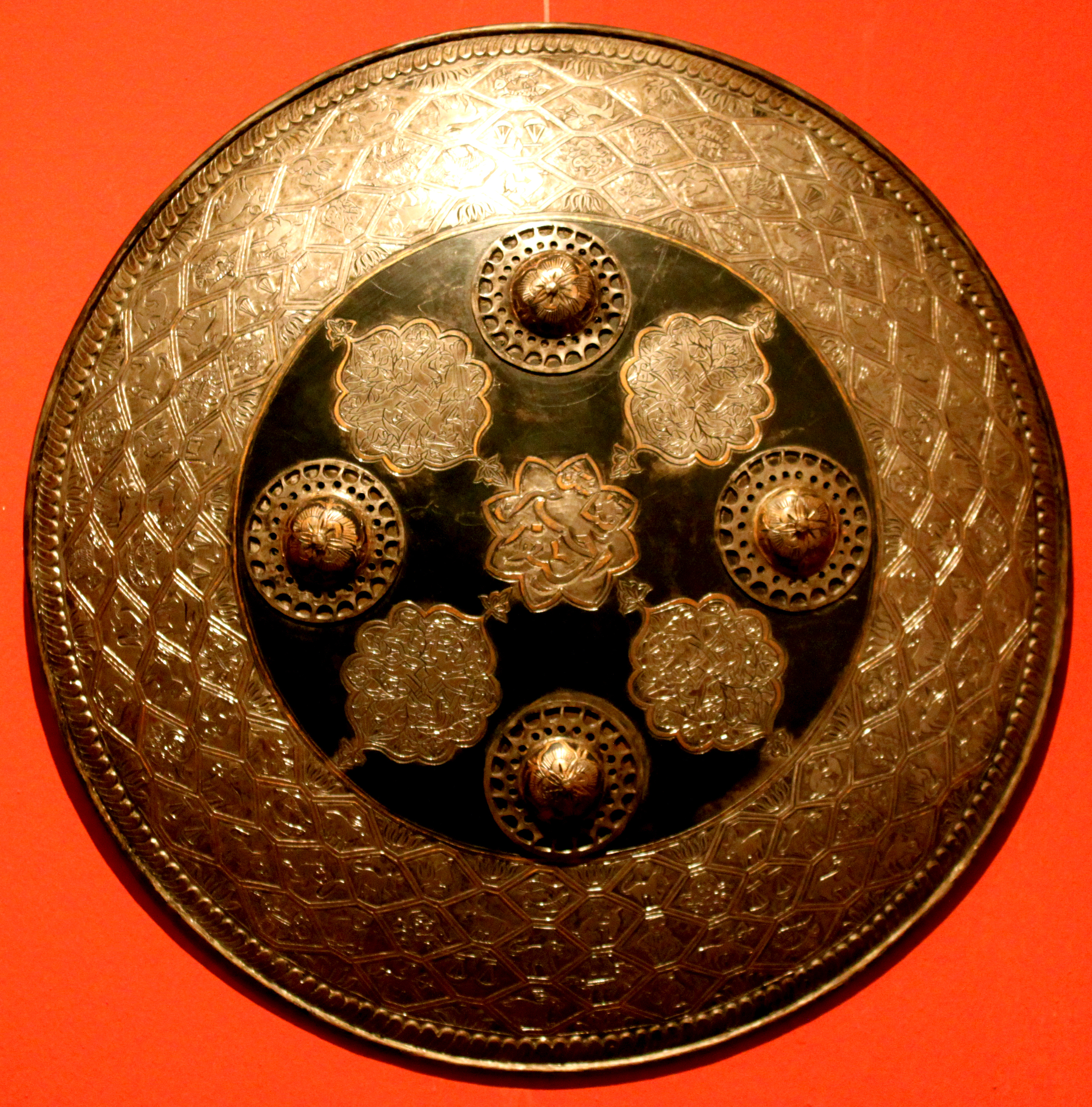 Medieval azerbaijani shield (Khanate of Karabakh)